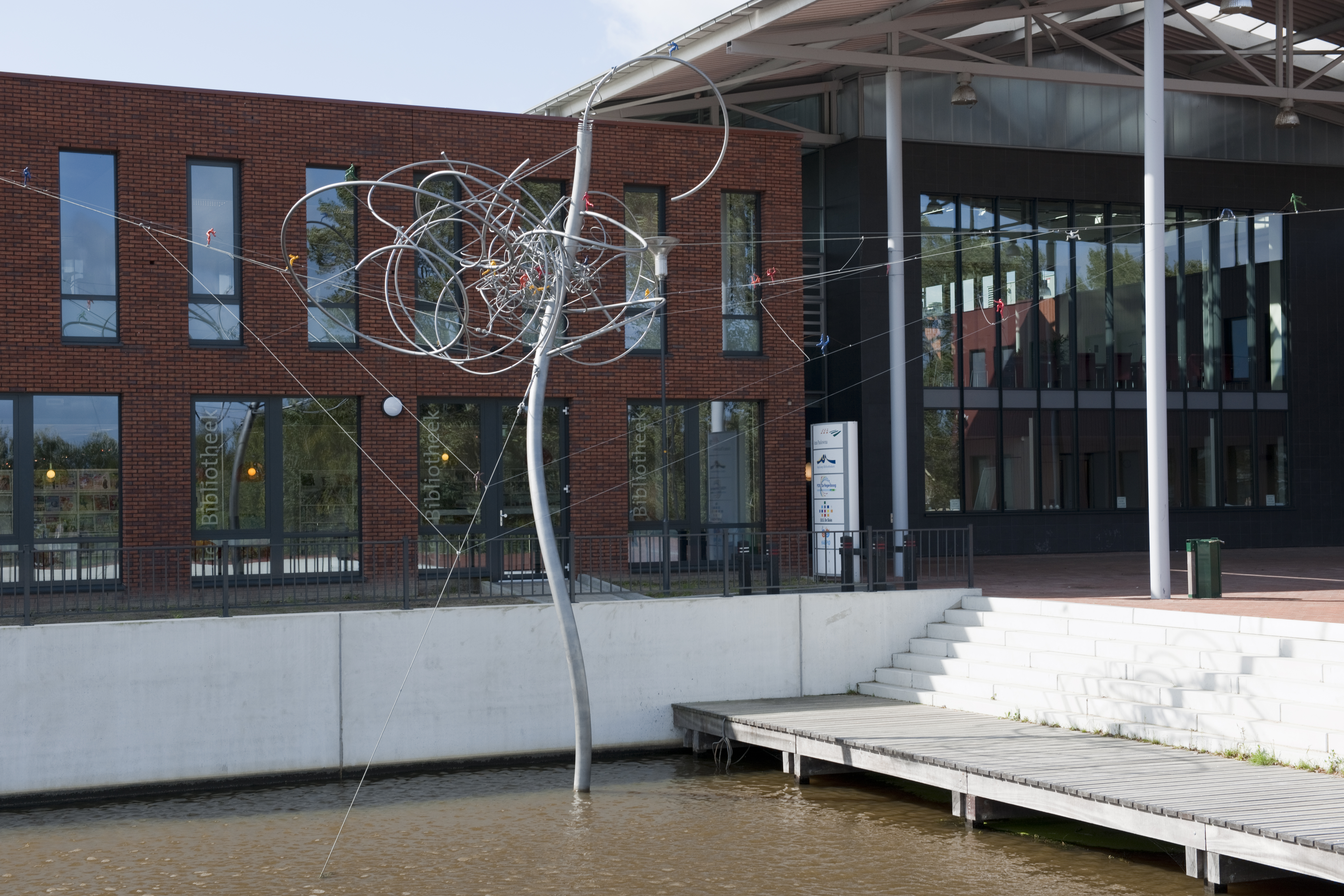 sculpture Ontmoeting (2010) steel polyester at the city hall in Anna Paulowna/The Netherlands